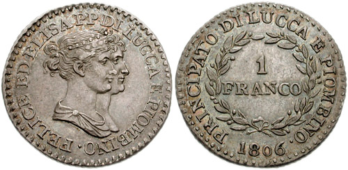 Italy, Lucca & Piombino. Elisa Bonaparte & Felice Baciocchi (1805-1814). AR Franco (22mm, 4.99 g, 6h). Dated 1806. FELICE ED ELISA PP DI LUCCA E PIOMBINO, jugate busts of Elisa Bonaparte and her husband right PRINCIPATO DI LUCCA E PIOMBINO, 1806 in exergue, 1/FRANCO in two lines across field; all within wreath. CNI XI pg.199, 7; Pagani 256; KM 23.